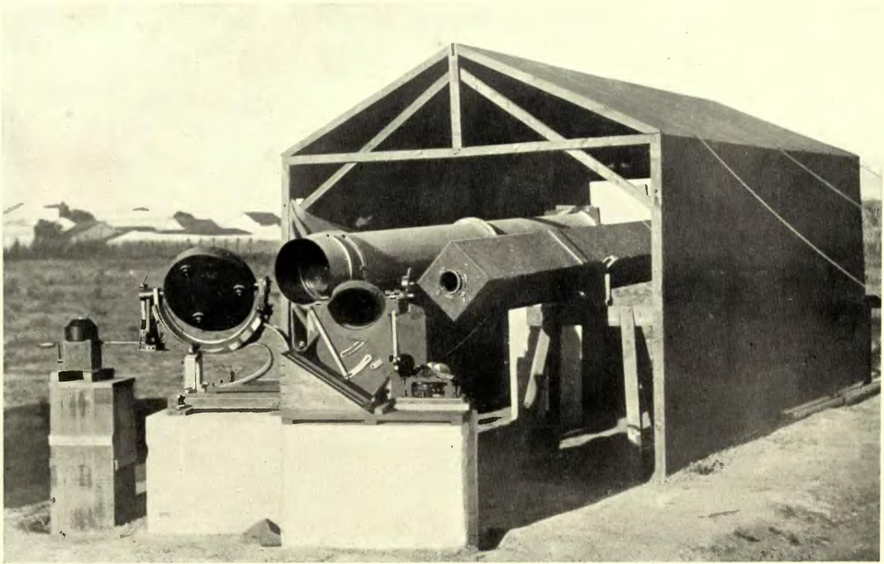 Eclipse instruments at Sobral (1919). Frontispiece.